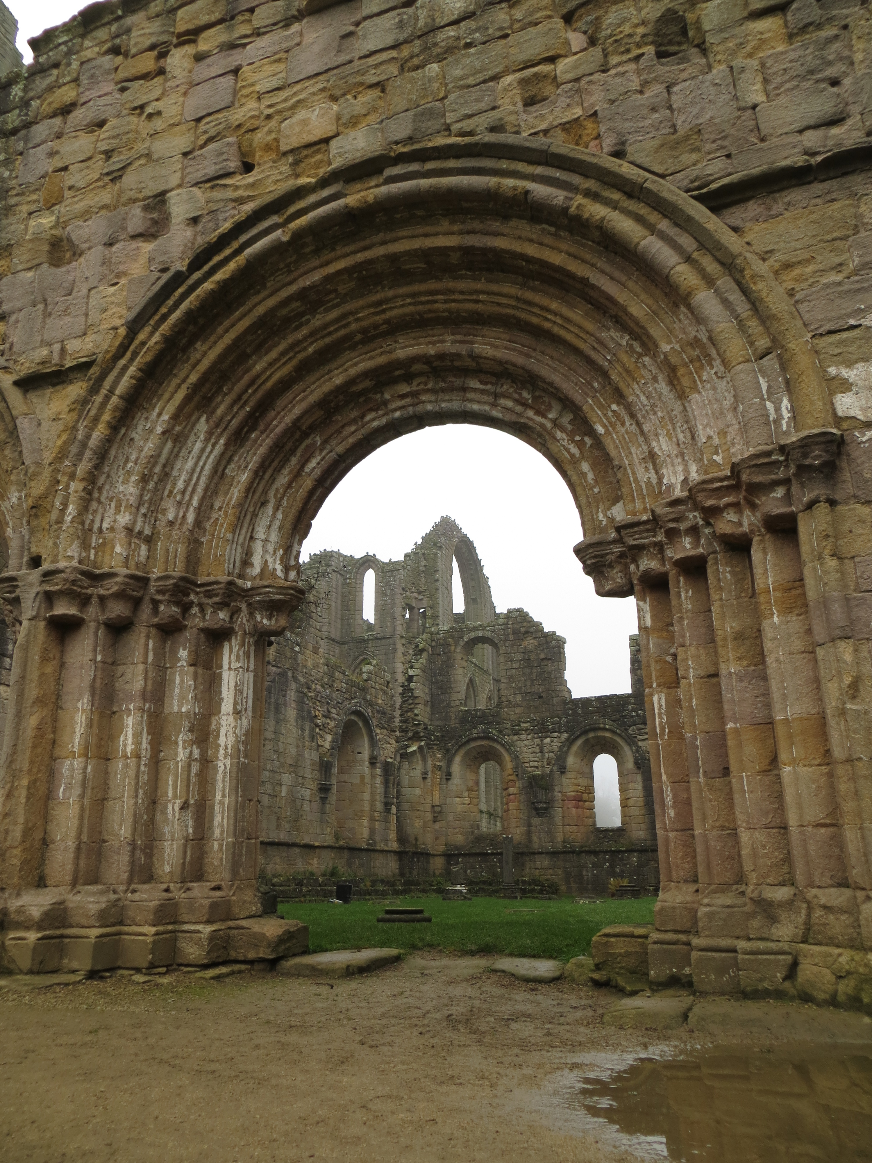 Cloister portal at Founain Abbey